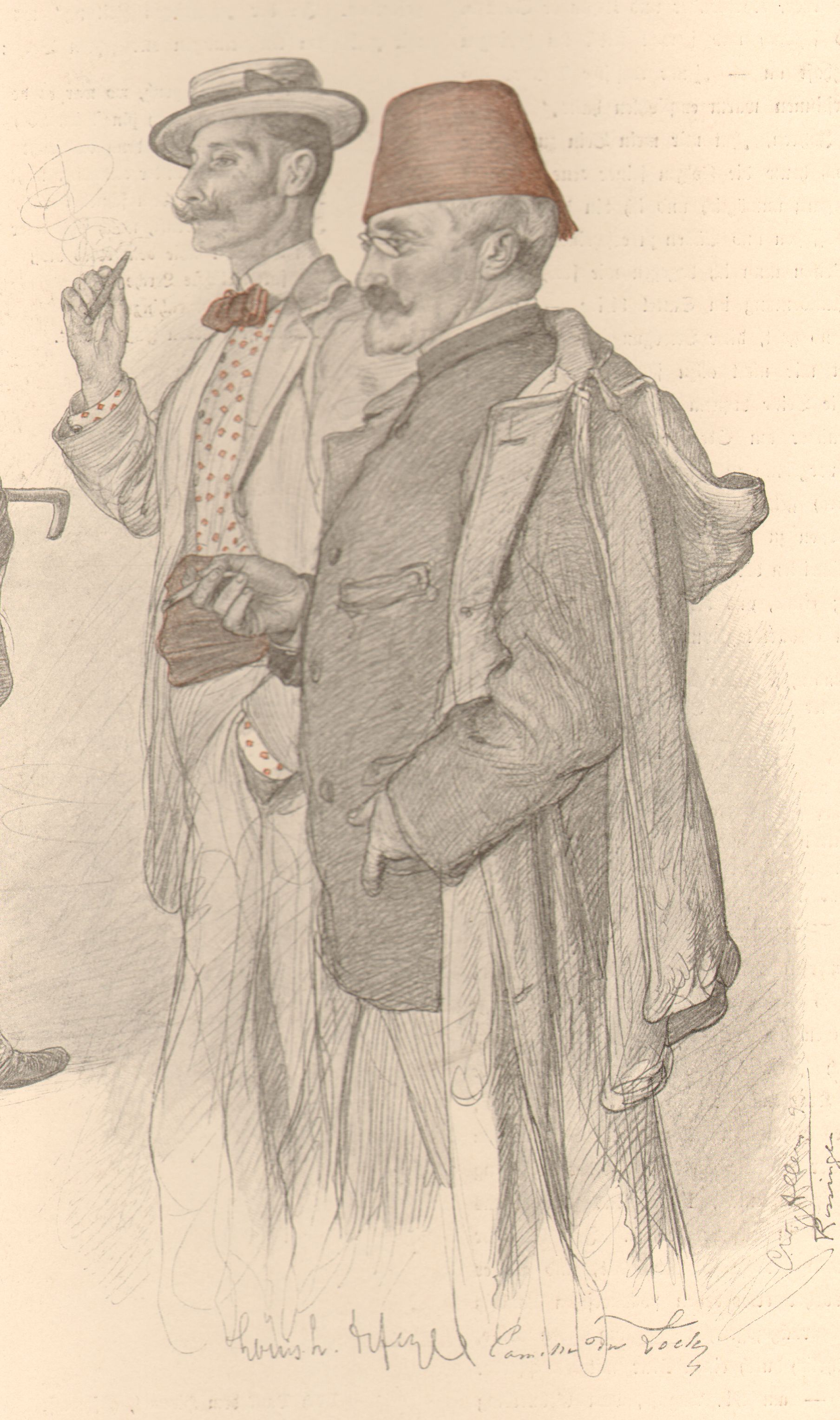 Camille du Locle (1832–1903) was a French librettist. The person in left background is not yet identified.